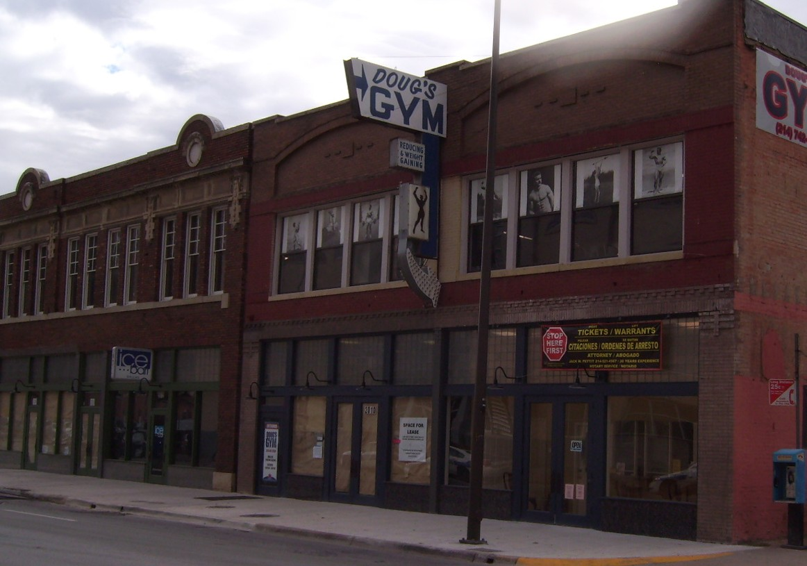 A photograph of Doug's Gym in Dallas, Texas.